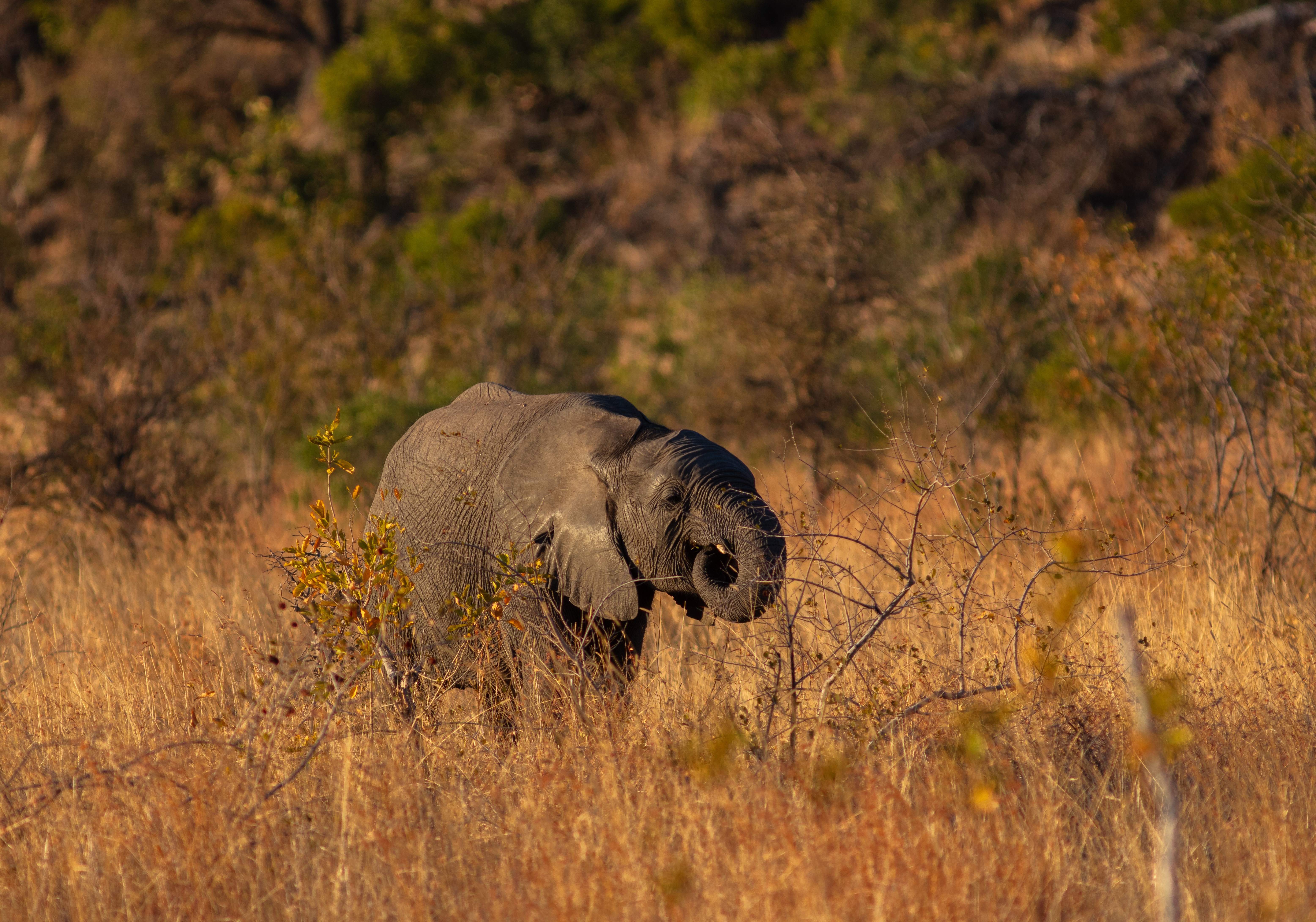 African bush elephant (Loxodonta africana), Kruger National Park, South Africa